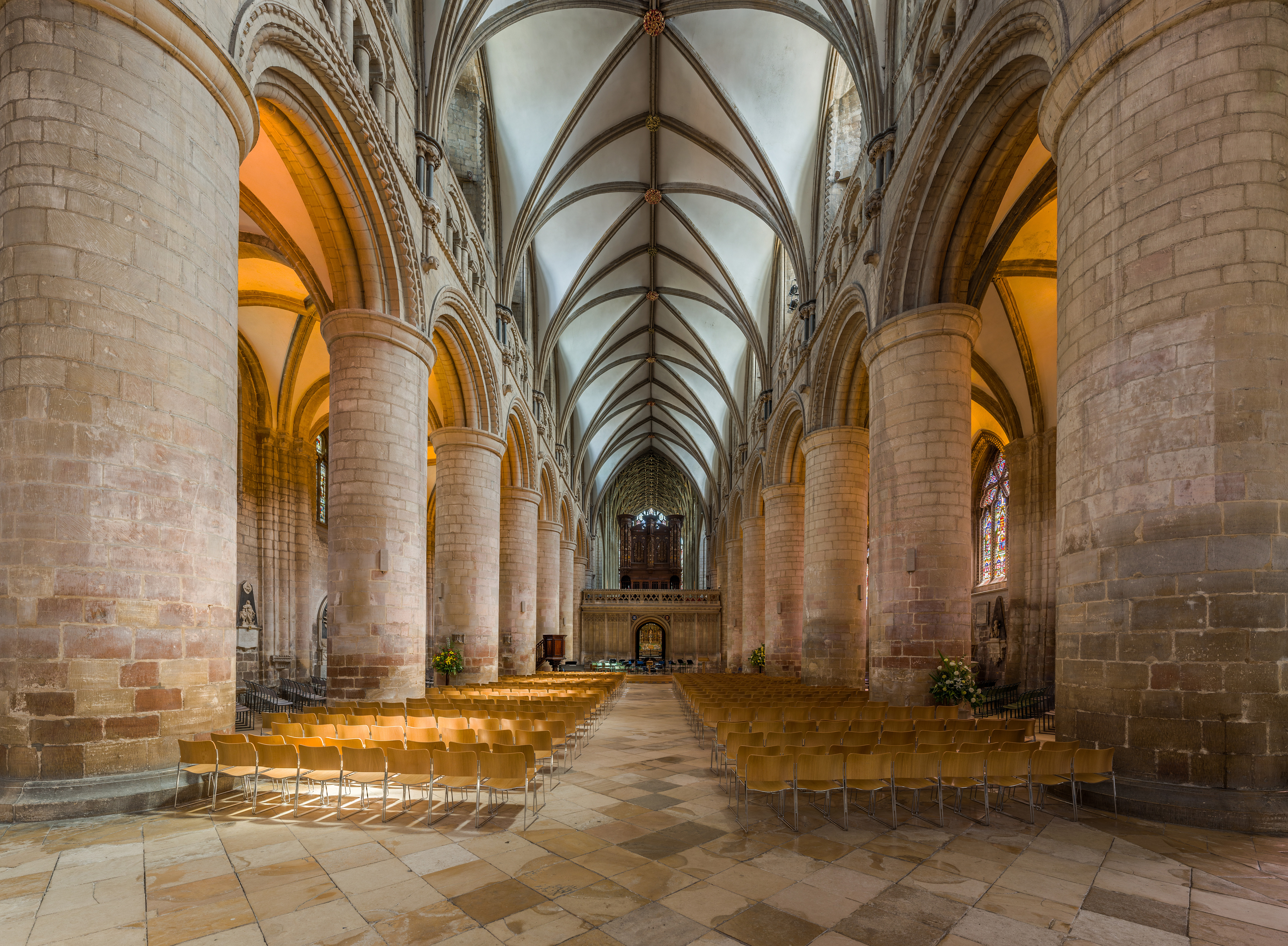 The nave of Gloucester Cathedral from the west in Gloucestershire, England.